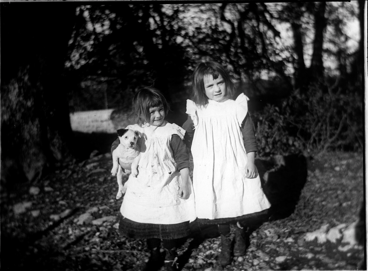 Have very few words to describe this photograph - overcome with the cuteness of it all, but the smallest girl and the puppy were surely besties! We thought these two little girls may be the Quinn sisters, and it was probably taken somewhere on or near the Clonbrock Estate owned by the Dillon family in Ahascragh, Co. Galway. Thanks to DannyM8 and Niall McAuley for their census research, so that we now know these may be Ellen Quinn on the left and her sister Maggie Quinn on the right - daughters of Joseph, a gardener on the Clonbrock Estate! Photographer: A member of the Dillon Family Date: Circa 1903, we think NLI Ref.: CLON860